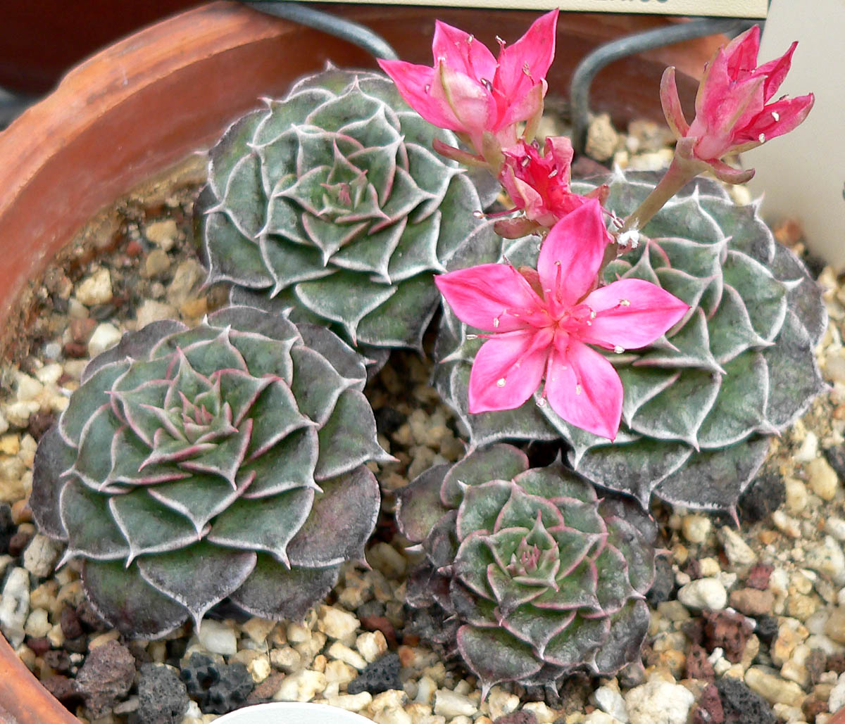 Photo of Tacitus bellus at the University of California Botanical Garden